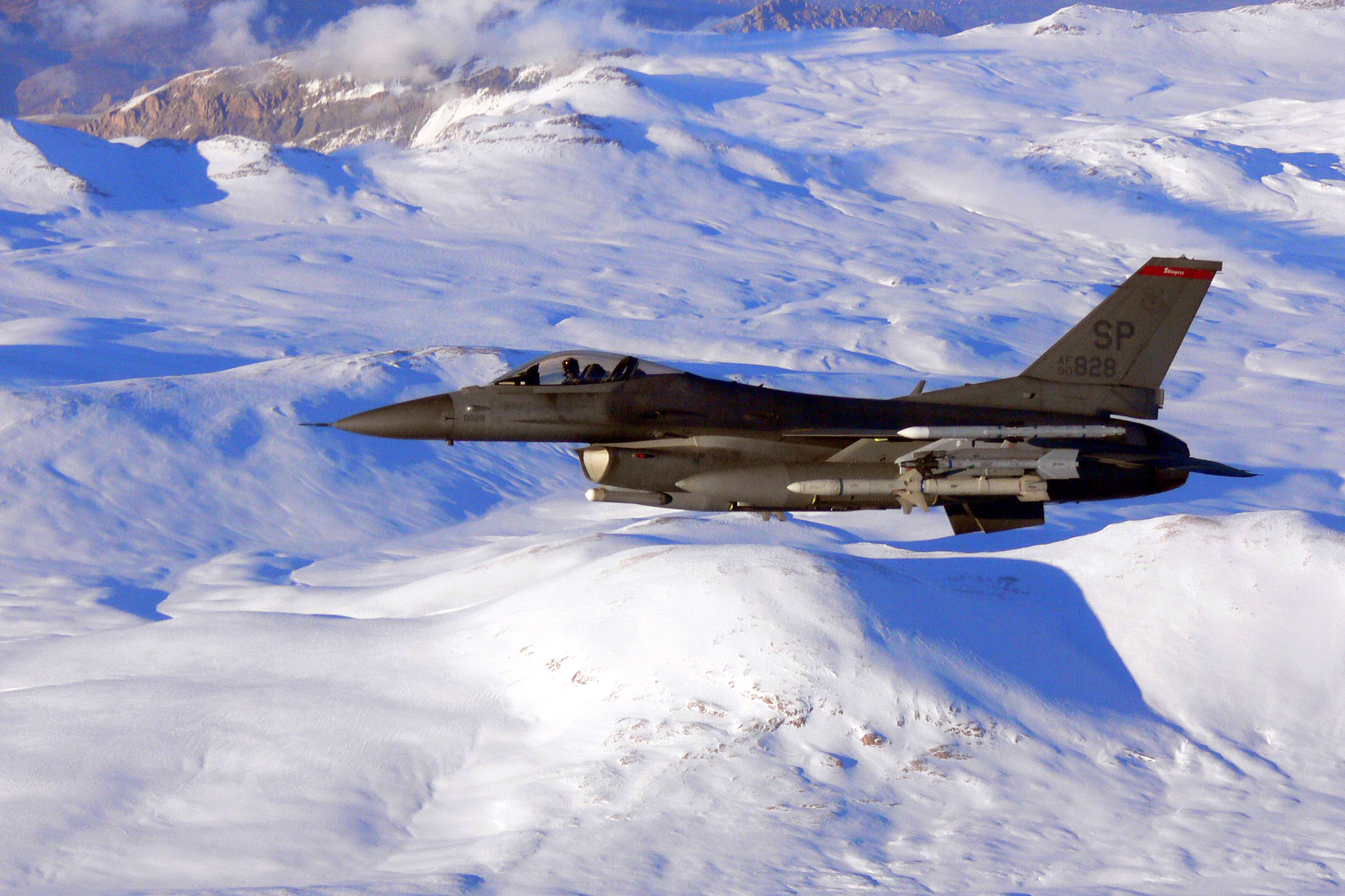 F-16C from 22nd Fighter Squadron performing combat air patrol over the glaciers of central Turkey during Exercise Anatolian Eagle.